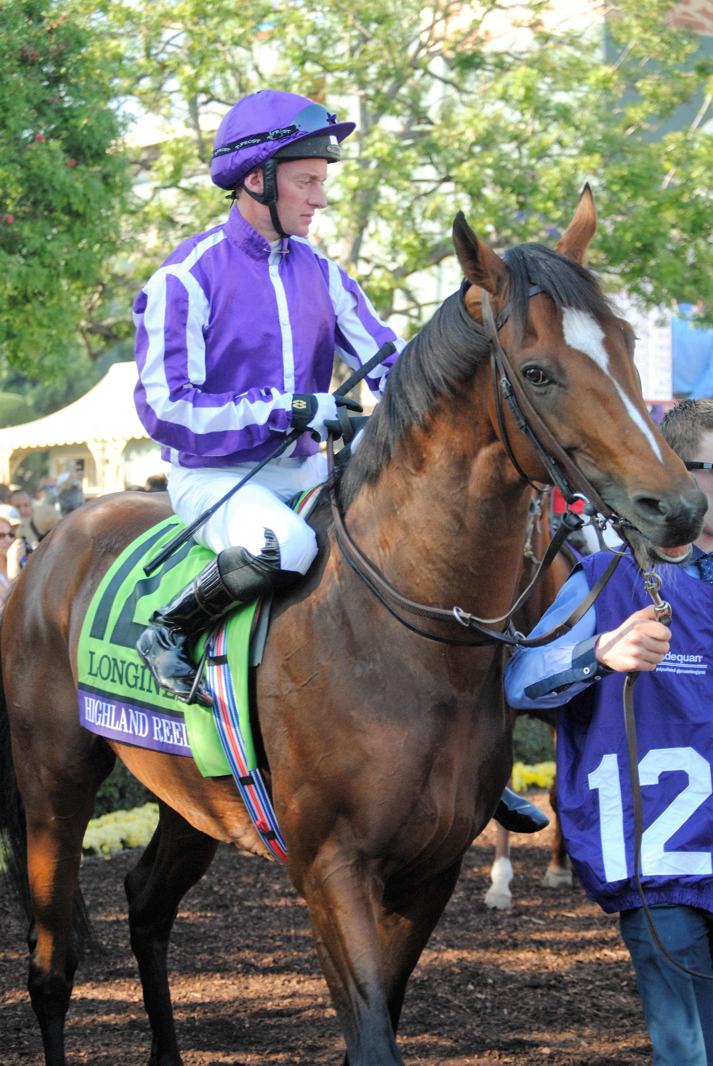 Highland Reel ready for the Turf. Ridden by Seamie Heffernan